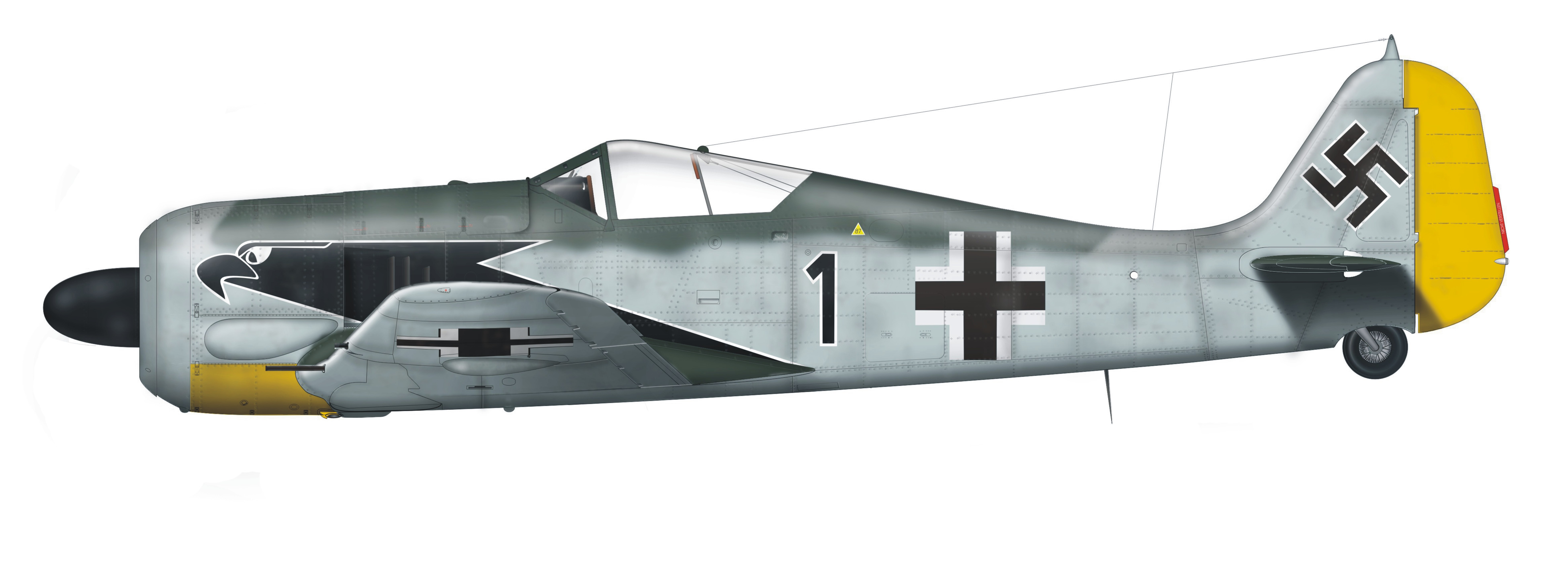 Focke Wulf Fw 190 A-4 of I./JG 2, flown by Olt. Hanning, spring 1943